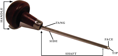 This diagram was created by Alexia Rostow as a more visually appealing replacement for the photo found here: This newly uploaded photo is licensed under CC-BY. It is sourced from the website The author has given me express permission to upload this image, and has encouraged its dissemination under CC-BY.